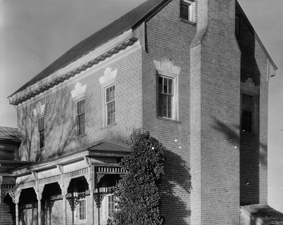 Detail of the Moses House, also known as 'Little Cherrystone,' near Chatham, Pittsylvania County, Virginia, by the American photographer and photojournalist Frances Benjamin Johnston. The 8 x 10 black-and-white photographic negative dates circa 1930-1939. Portions of the house were subsequently demolished. This image forms part of the Johnston archives at the Library of Congress, to whom Johnston bequeathed her archives in perpetuity, hence there are no restrictions on publication, as per the Library's website. Image courtesy of the Prints and Photographs Division, Library of Congress, Washington, D.C.